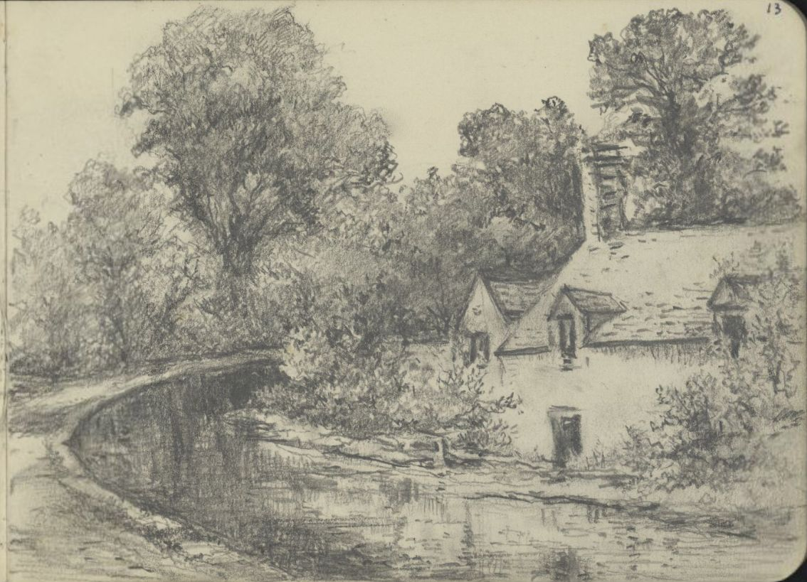 Image from a sketchbook by the artist Samuel Maurice Jones